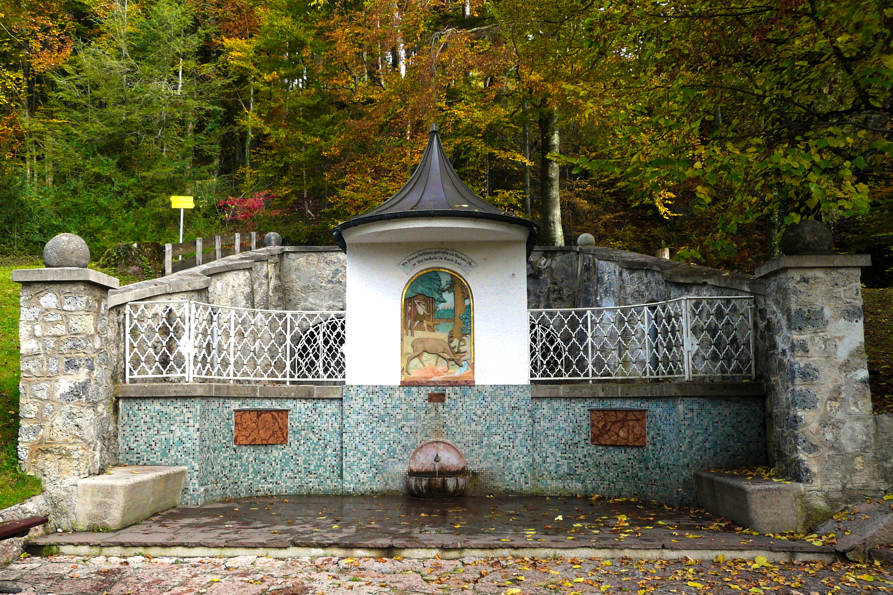 Primusquelle in Bad Adelholzen near Siegsdorf, spring house with picture of discovery by the Roman Primus.